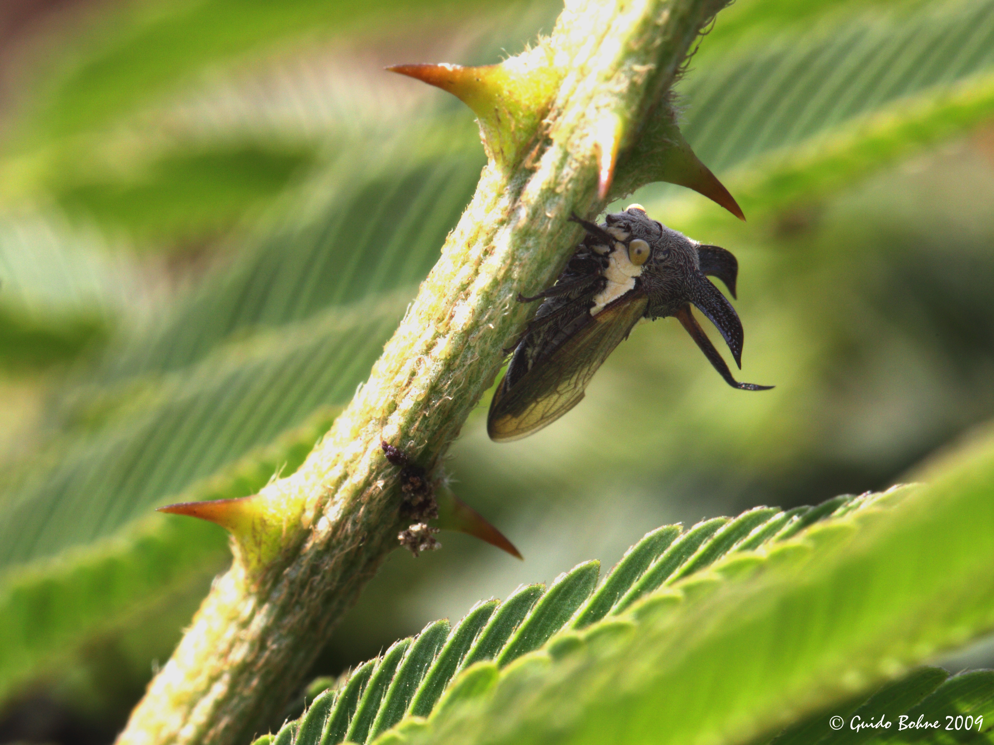 Damages the inflorescences of Teak [David Ananthakrishnan 2006, General & apllied Entomology, 2nd edition, ISBN 0-07-043435-2] Leptocentrus vicarius WALKER (thorned tree-hopper, Dornen-Buckelzikade Genus: Leptocentrus STÅL, 1866 Tribus: Leptocentrini Subfamily: Centrotinae Family: Membracidae Superfamily: Membracoidea Order: Hemiptera Class: Insecta Indonesia, W-Java: Tangerang (Kampung garden), 50m asl., 14.09.2009 (IMG_6185)